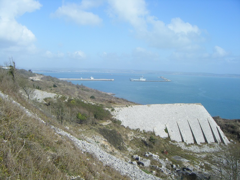 East Weares Rifle Range, Portland, Dorset 3